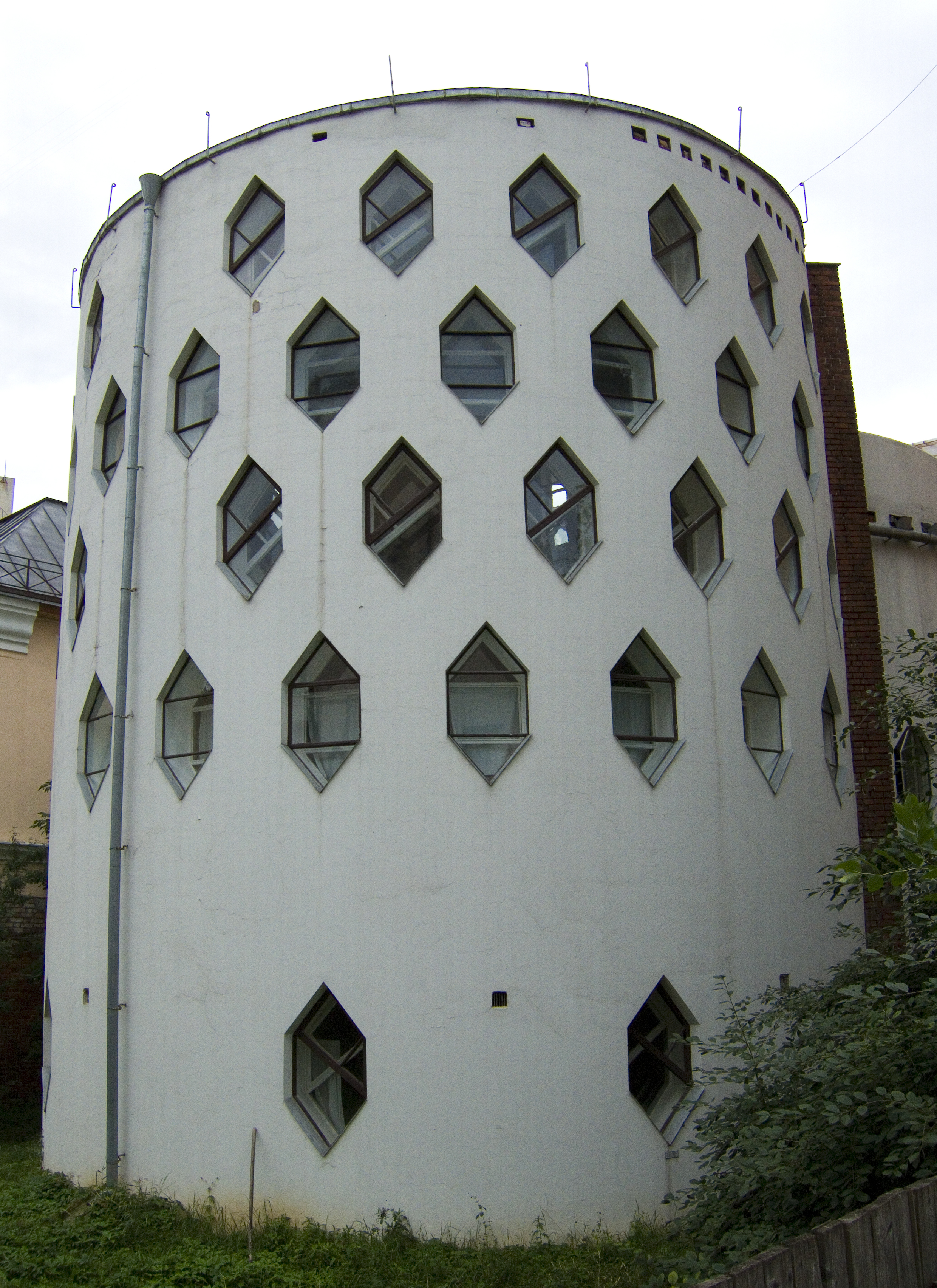 Own house of architect Konstantin Melnikov in Moscow